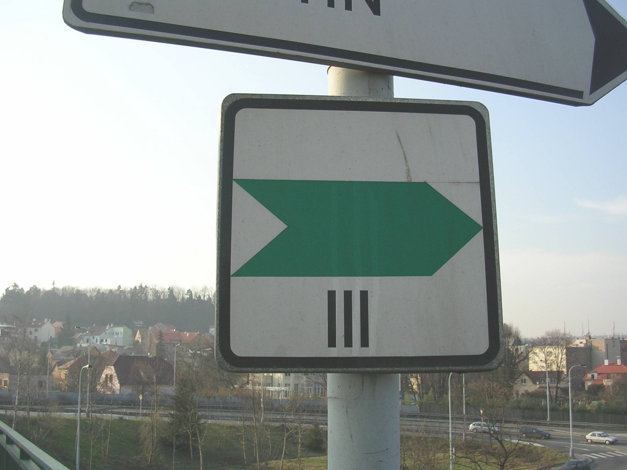 Zbraslav, Prague, the Czech Republic.